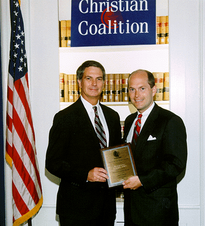 Congressman Walter Jones Receives Friend of the Family Award from Christian Coalition President Randy Tate